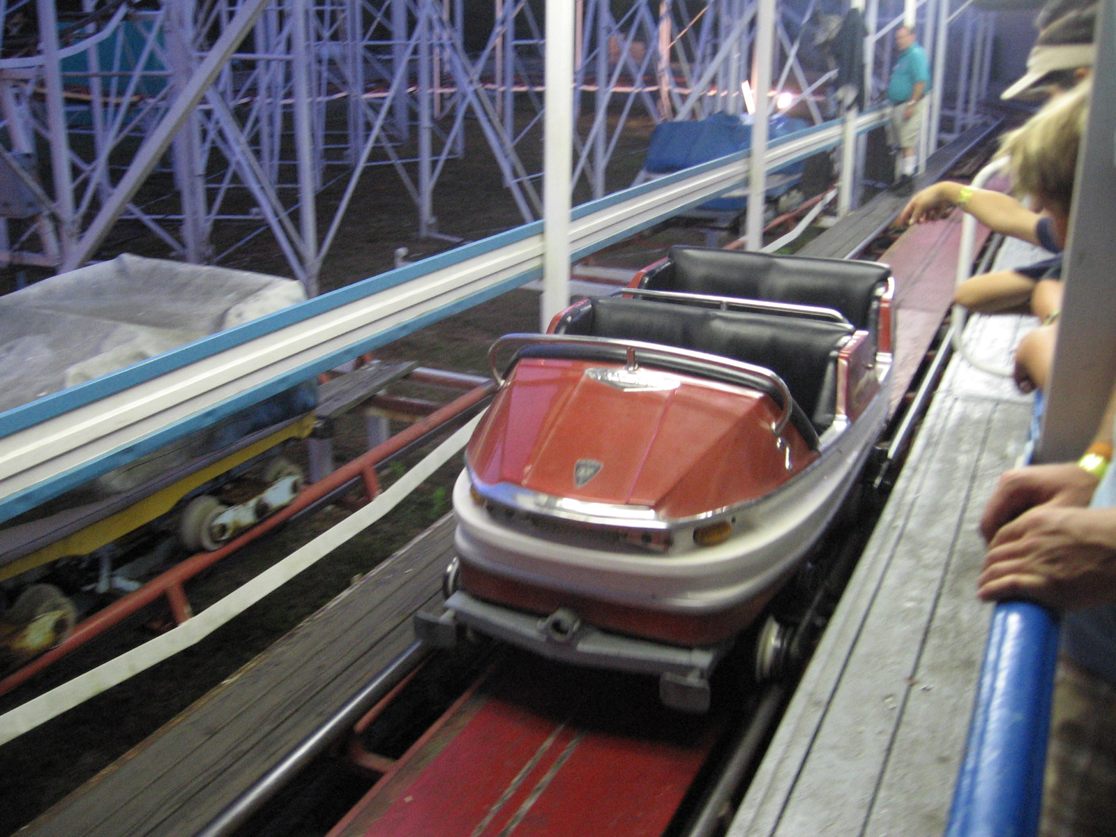 One of the passenger cars (trains) from a Galaxi-style roller coaster at the Funtown Splashtown USA park in Saco, Maine